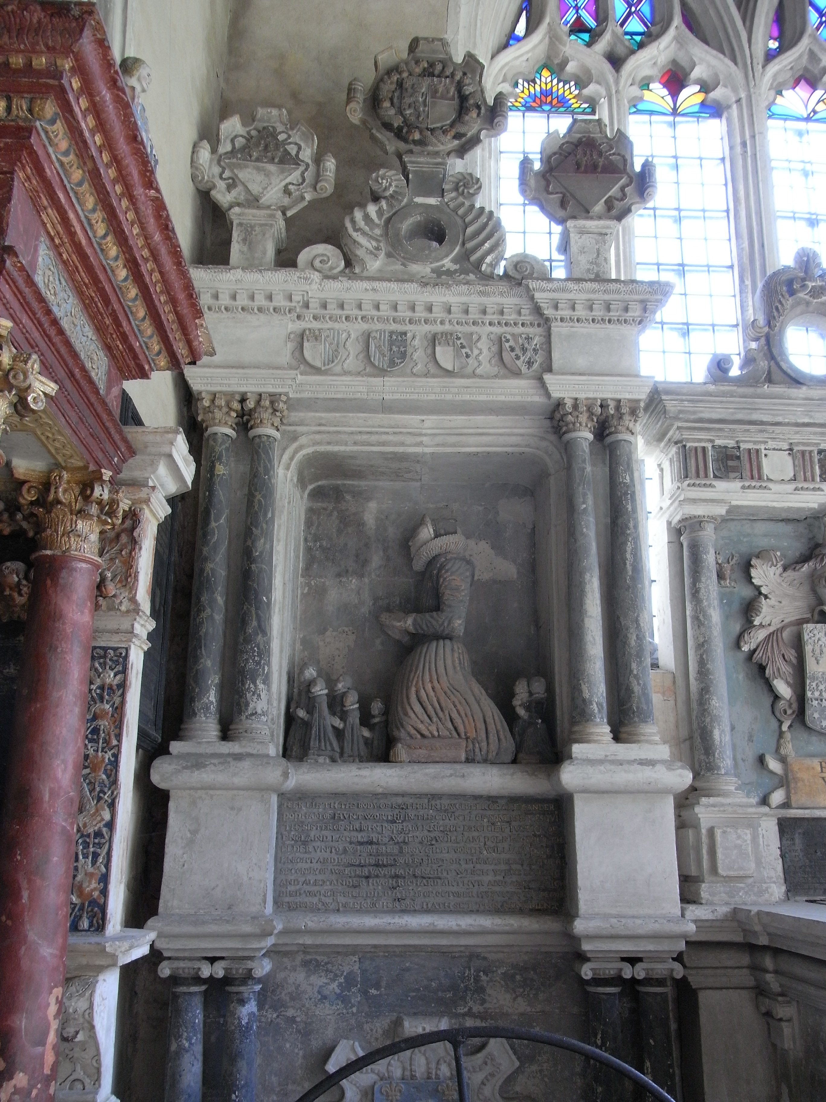 Monument to Katherine Popham (d.1588), wife of William Pole (1515-1587), Esquire, Pole Chapel, Colyton Church, Devon